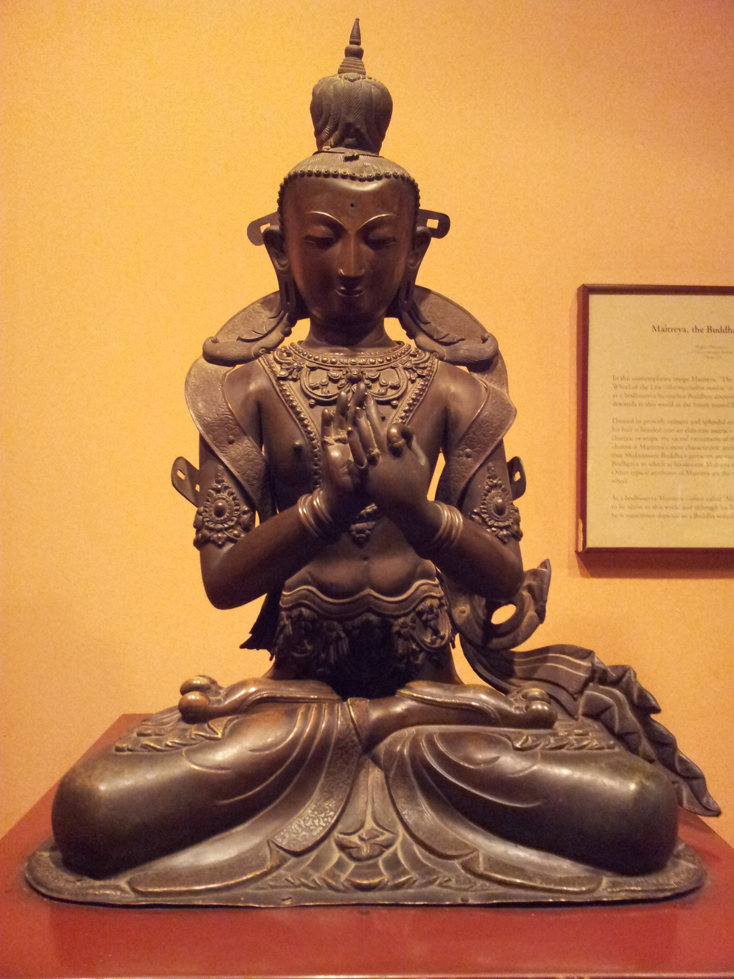 Statue of Maitreya Buddha in Patan Museum